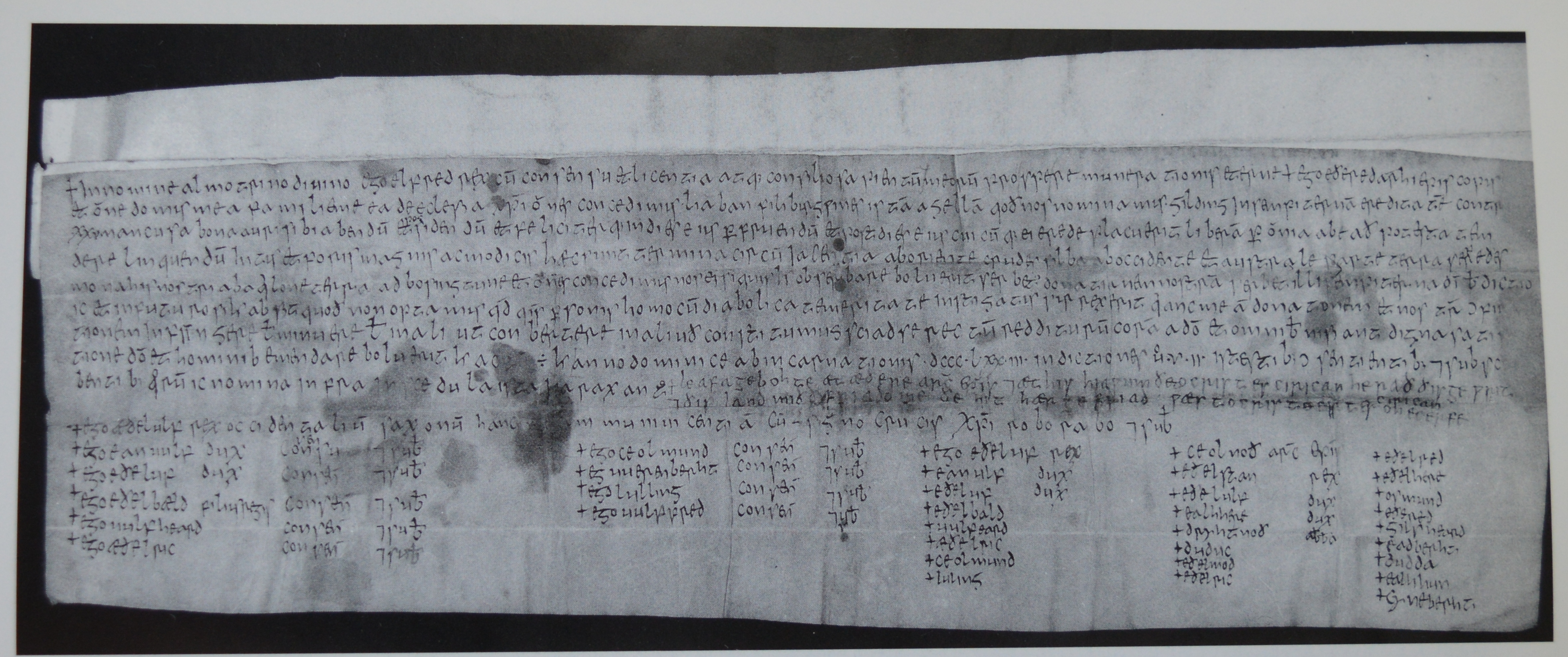 Charter issued in 873 by Archbishop Æthelred of Canterbury with King Alfred, granting land to Liaba, son of Brigwine, at Ileden in Kent. According to Simon Keynes at [1] it exhibits the poor standard of Latin at the start of Alfred's reign.